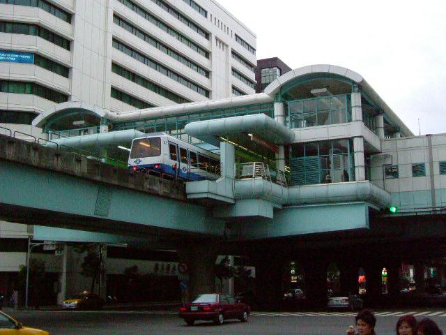 Nangjing East Road Station of Taipei Metro Wenshan-Neiho Line. The station name changed to Nangjing-Fuxing Station due to the new line Songsan Line is operated in 2014.